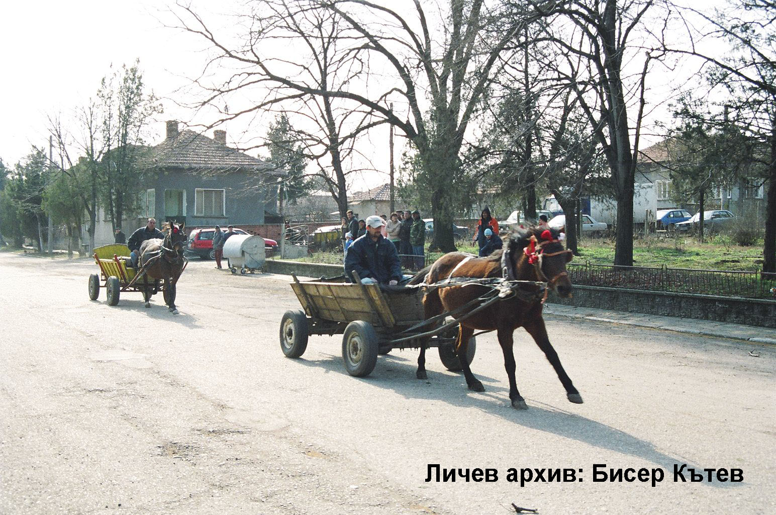 Horce cart race on Todor's day. Village Dragomirovo, Veliko Tarnovo District, Bulgaria